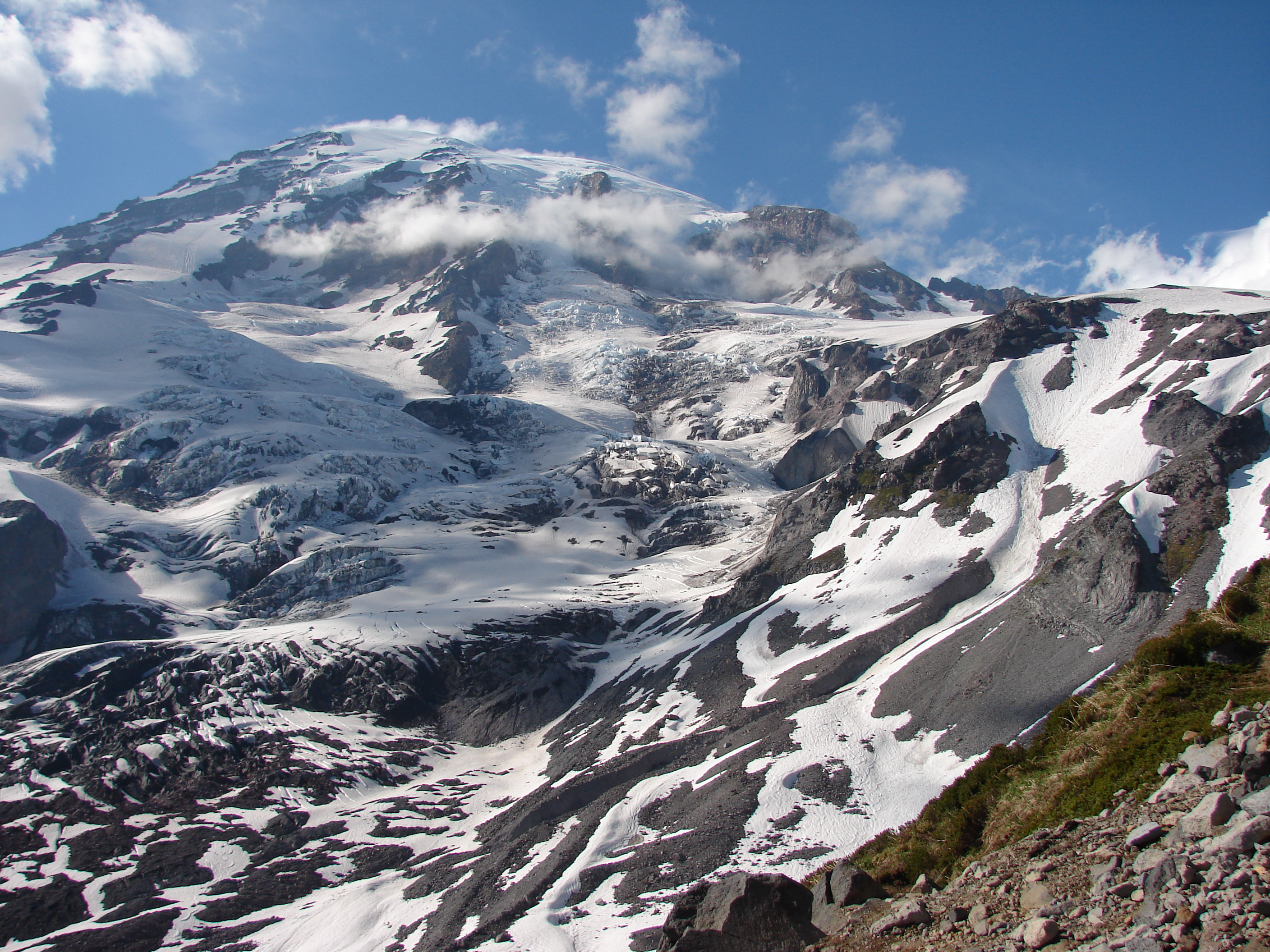 Mt Rainier From Glacier Vista. Keywords: landscape; mountain; paradise